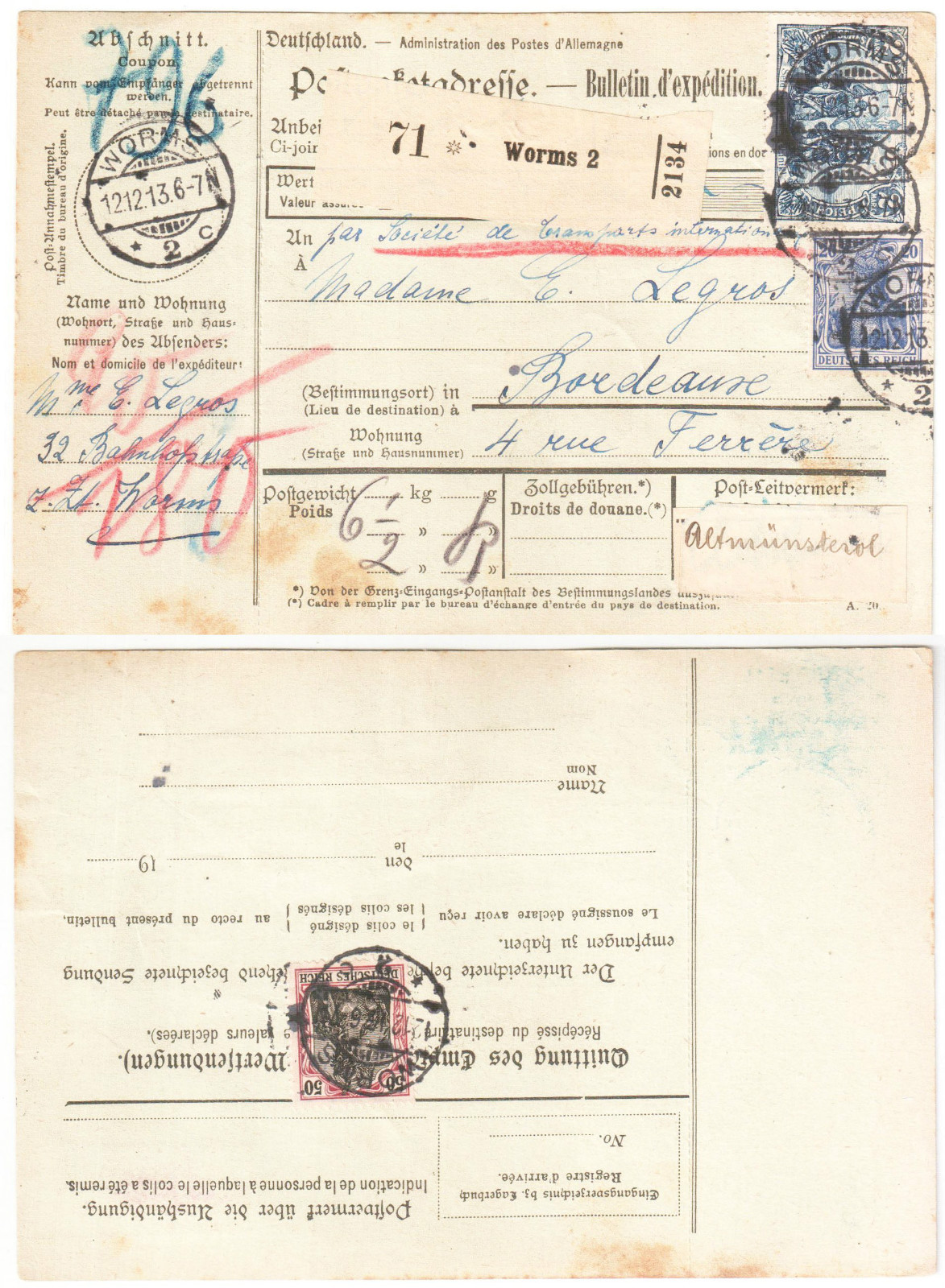 Bulletin d'expédition Worms to Bordeaux France 1913